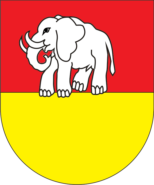 coats of arms of the county of Helfenstein